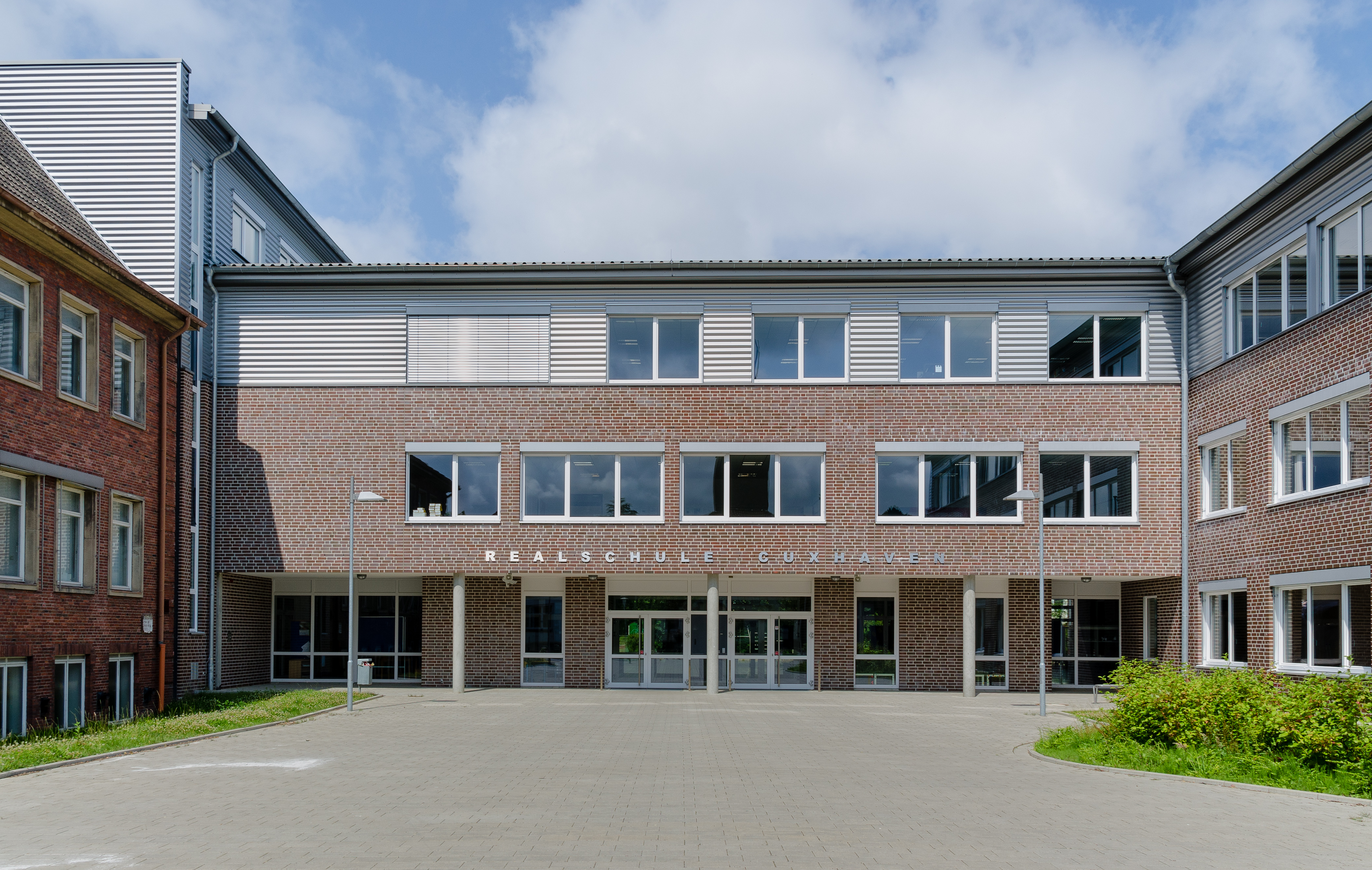 Junior high school Cuxhaven